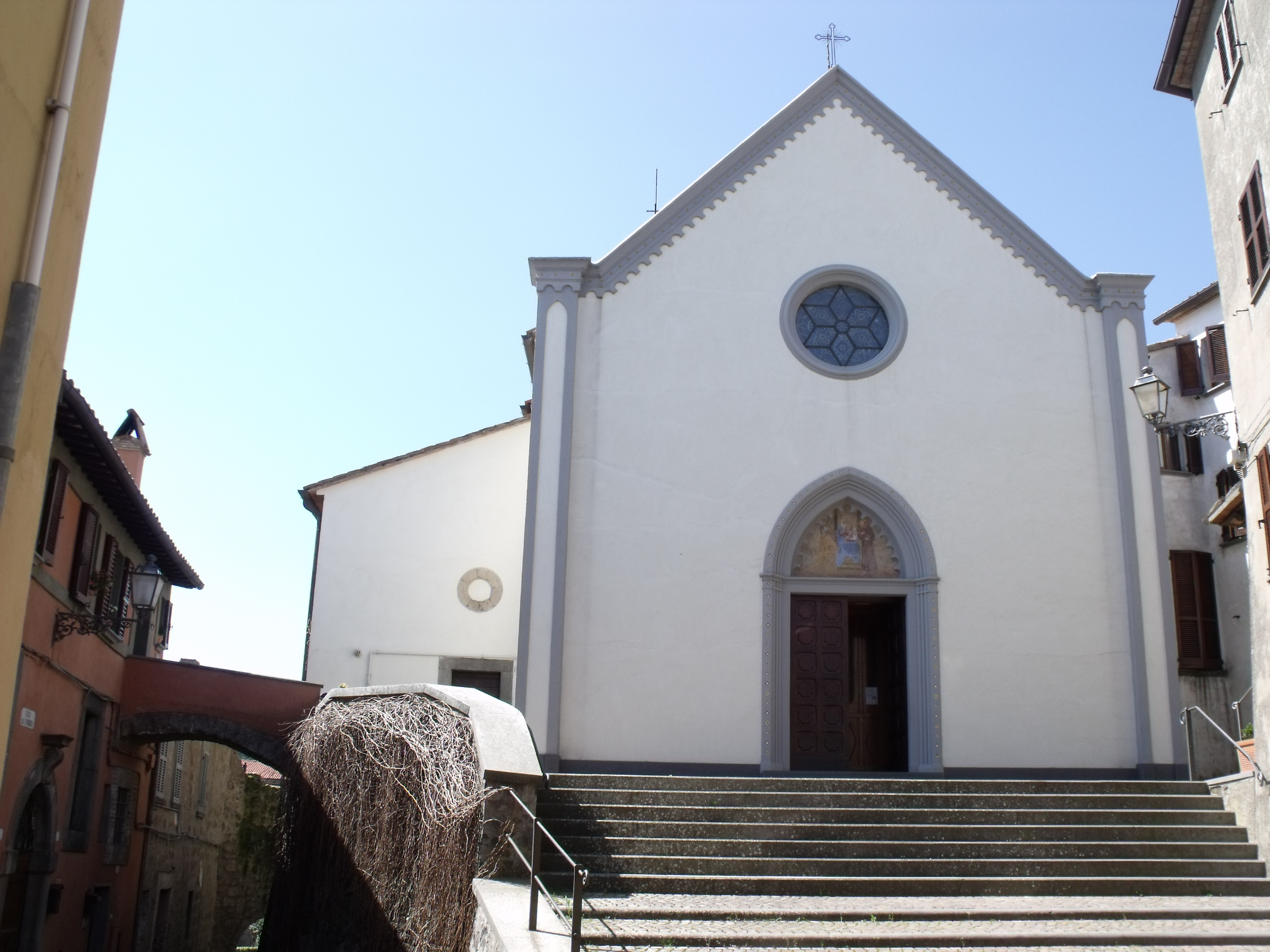 Church of San Biagio in Porano, Province of Terni, Umbria, Italy